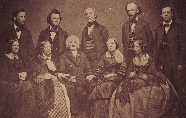 Group portrait of the Beecher family. Photograph includes, standing from left to right, Thomas, William, Edward, Charles, Henry Ward, and seated from left to right, Isabella, Catherine, Lyman, Mary, and Harriet.